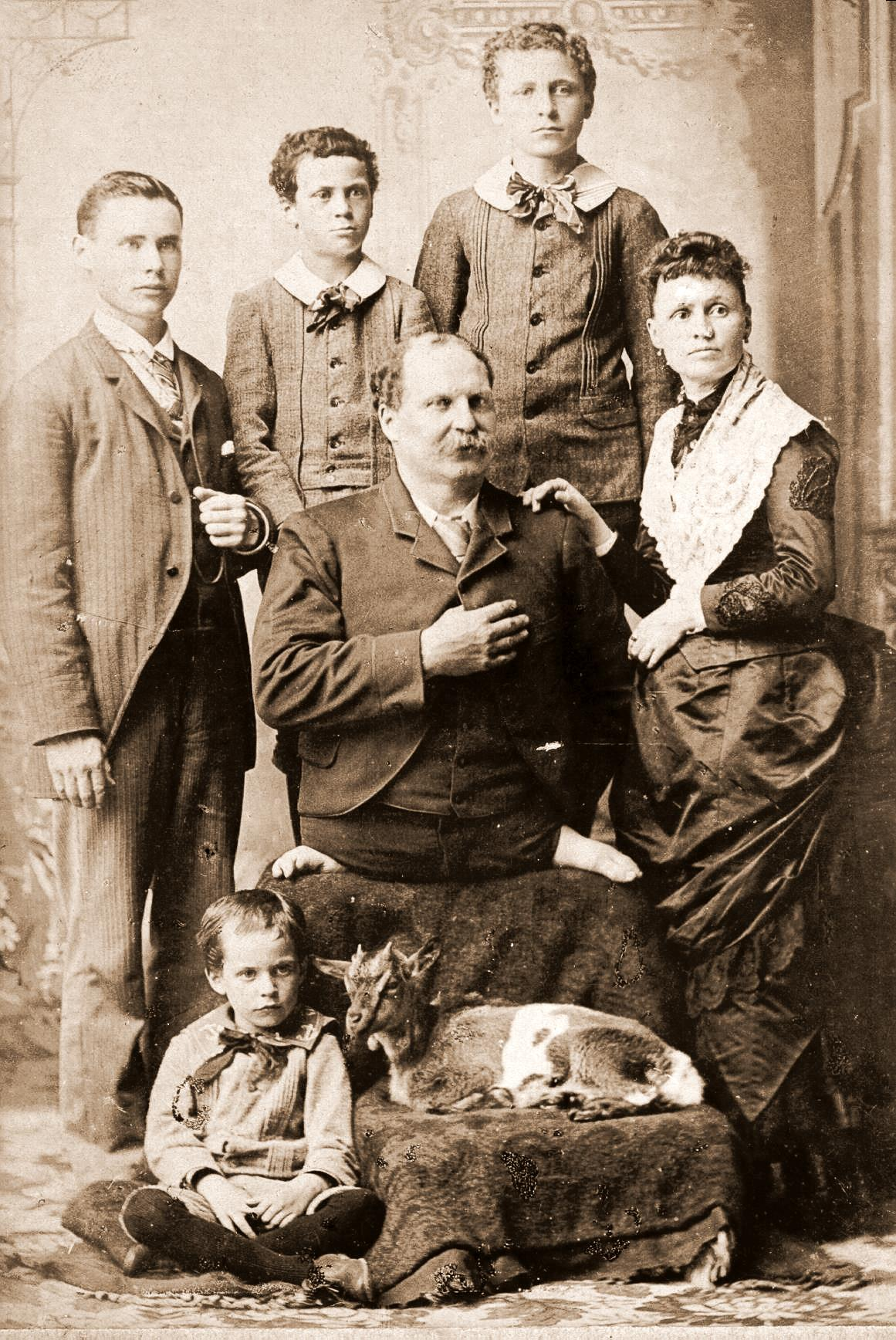 Eli Bowen, wife and children, and pet goat.